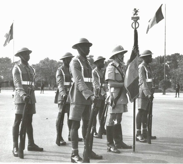 Members of the Force Publique on parade.